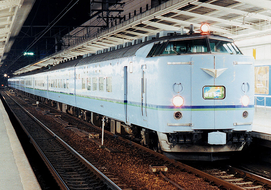 A JR West 581/583 series EMU on a Kitaguni overnight express service